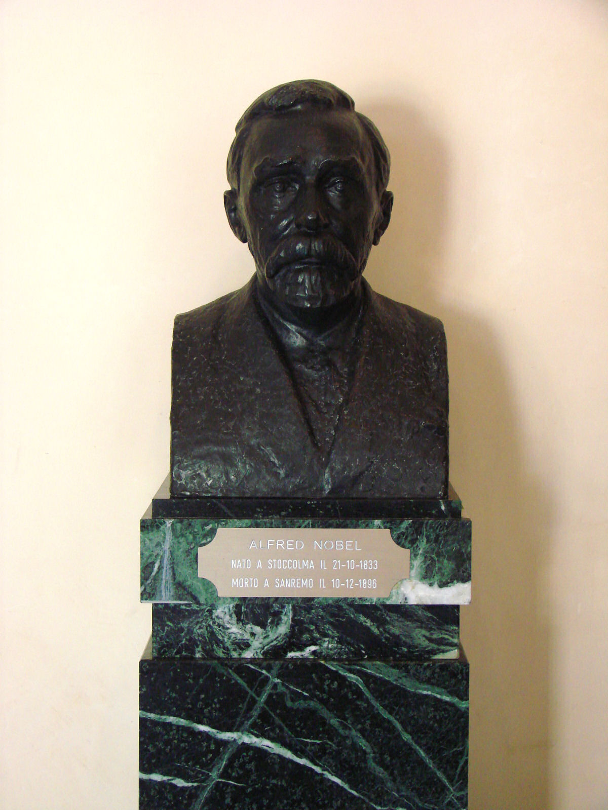 Alfred Nobel - Statue at the entrance of Villa Nobel, Sanremo